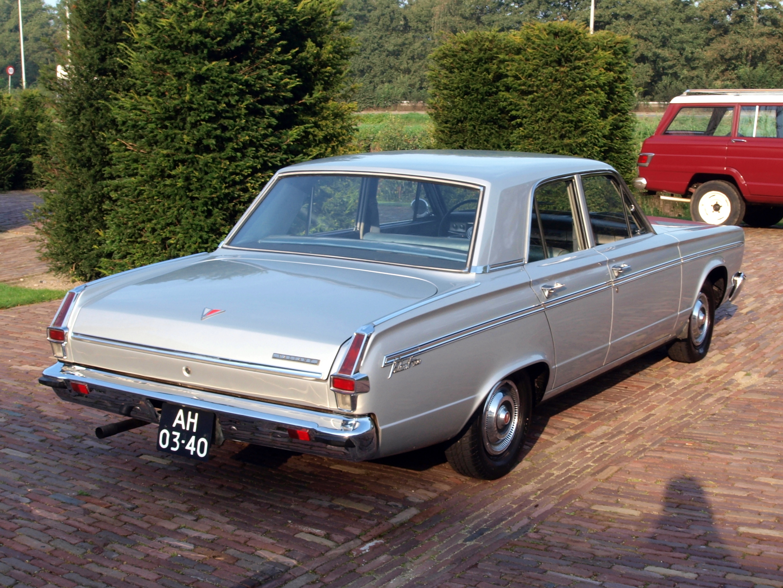 1966 (or '67?) Chrysler Valiant 200, photographed at the premises of the Louwman museum, The Hague, The Netherlands.